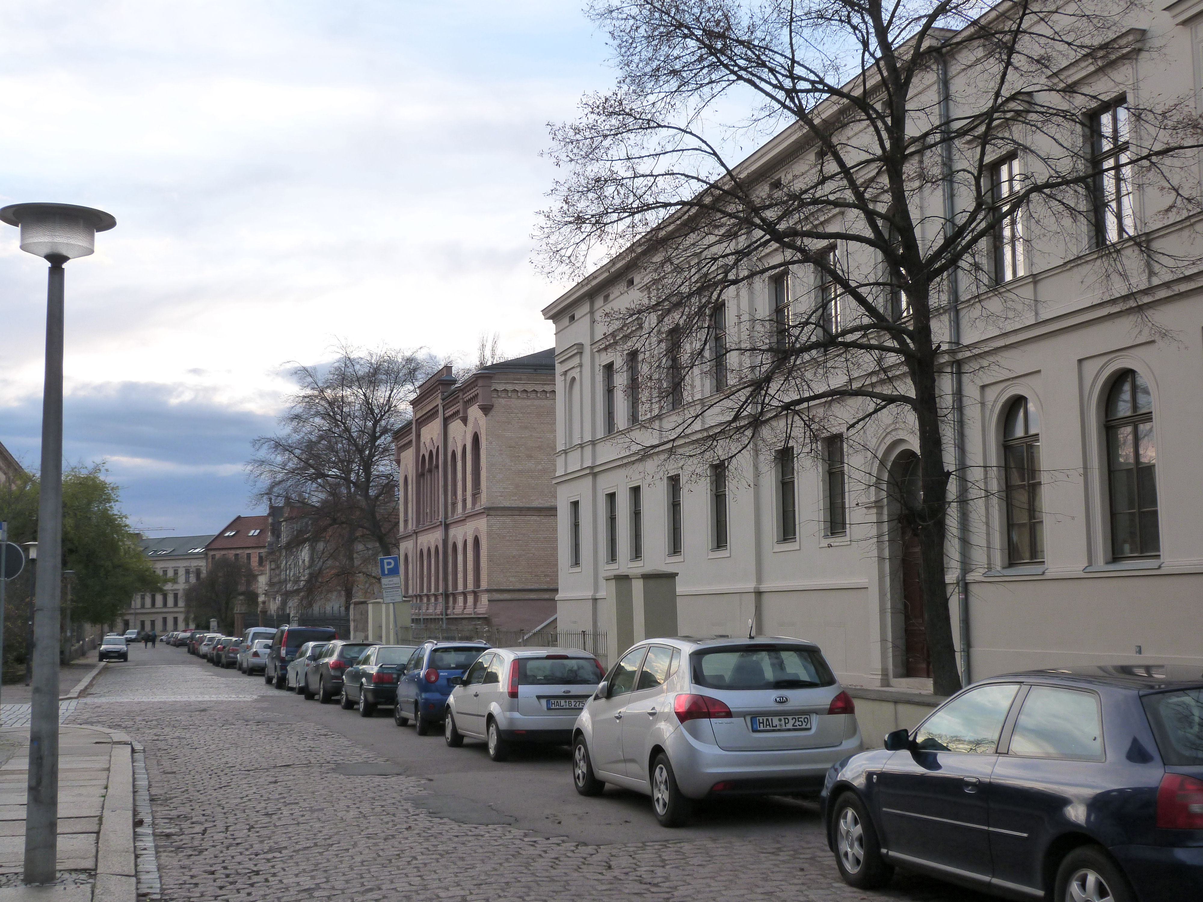 Luisenstrasse in Halle (Saale), Saxony-Anhalt